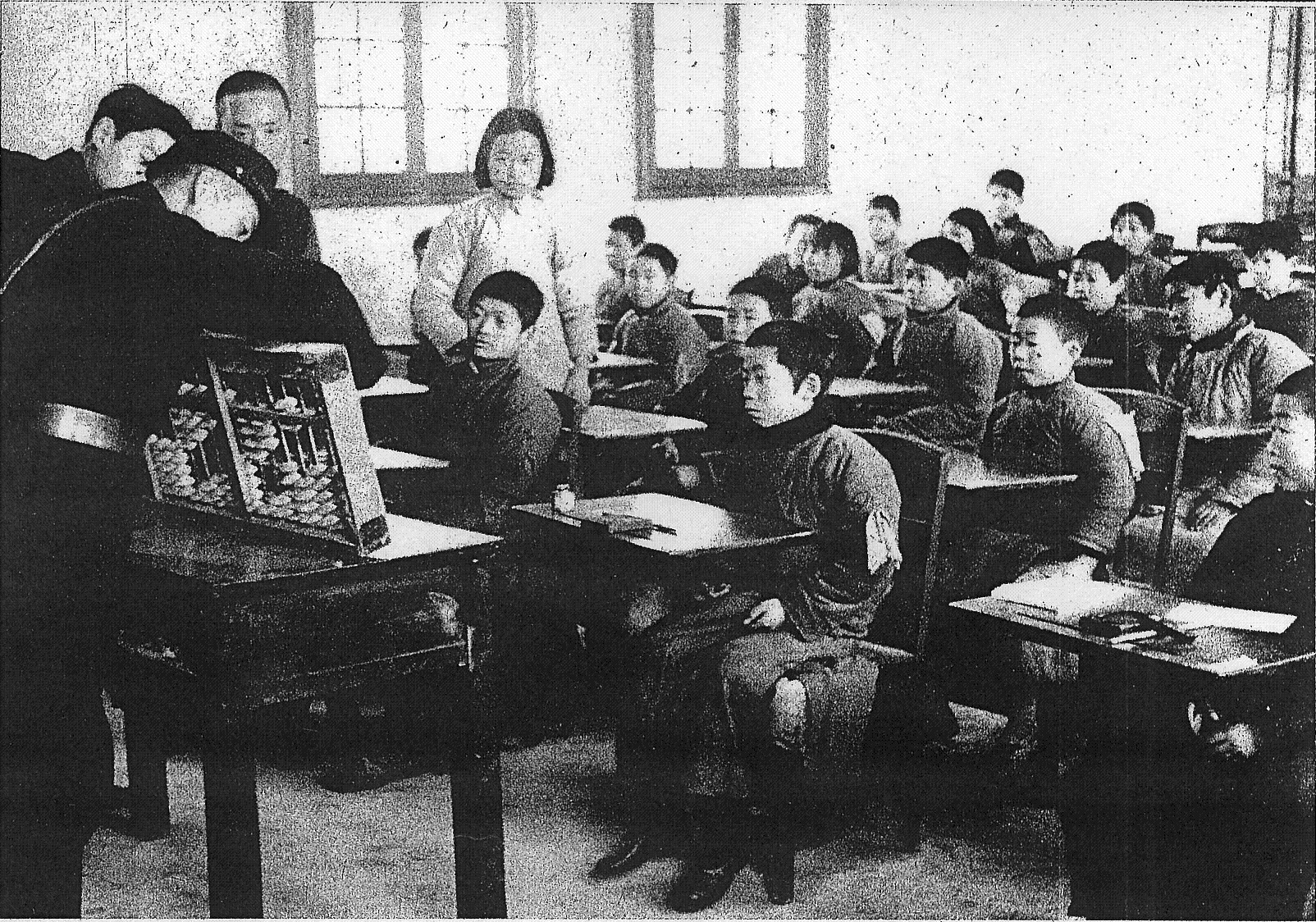 Abacus lesson by Japanese in Zhenjiang, Jiangsu, China.